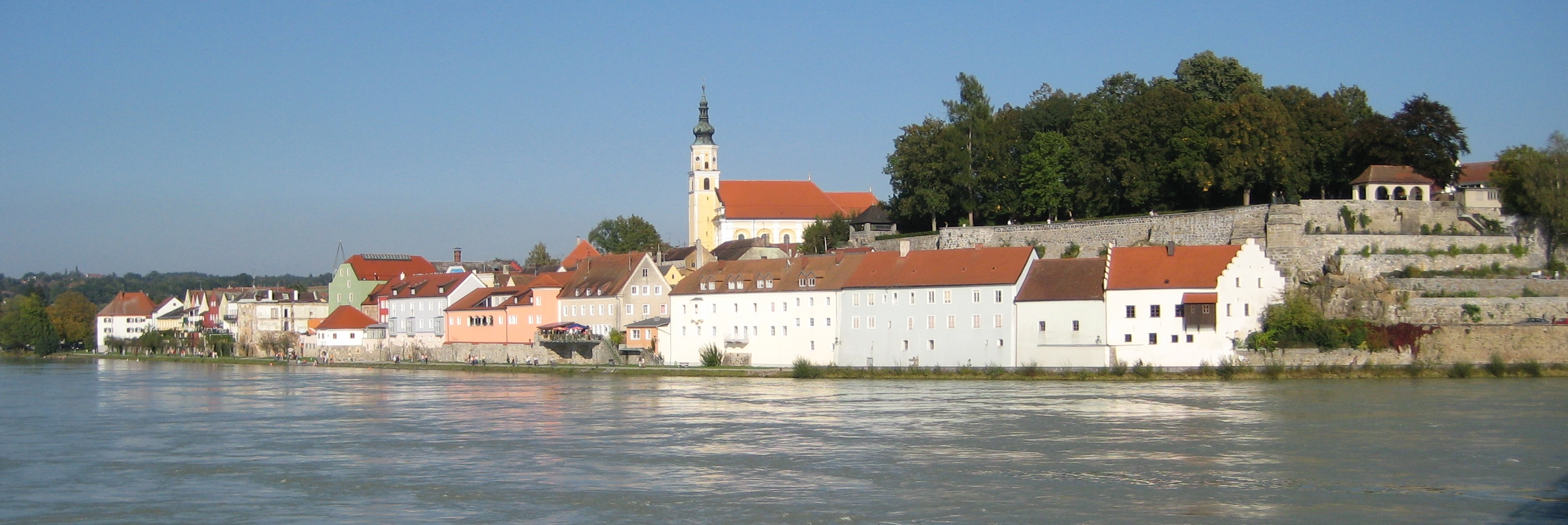 Schärding